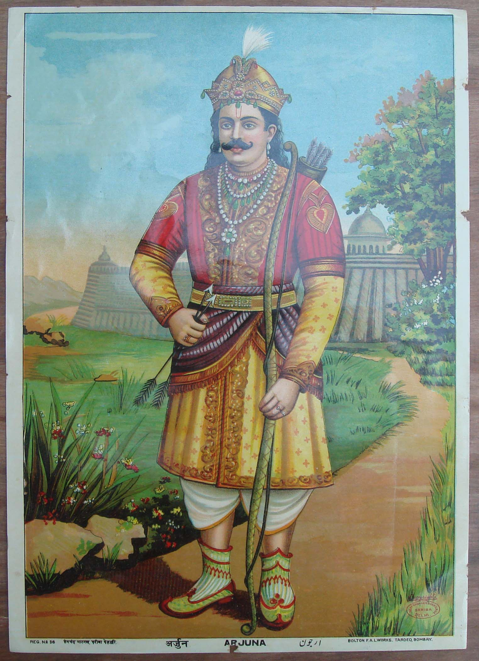 Arjun Product Code: 12A-13 Condition: Very Good Availability: Available Size: 10 x 14 inches Medium: Lithographic Print Year: 1920's Size: 10x14 inches. Condition: Very Good. A very beautiful Hindu religious lithographic print. Printed at: Bolton F.A.L. Works Bombay. Published by: Hem Chandra Bhargav, Delhi.